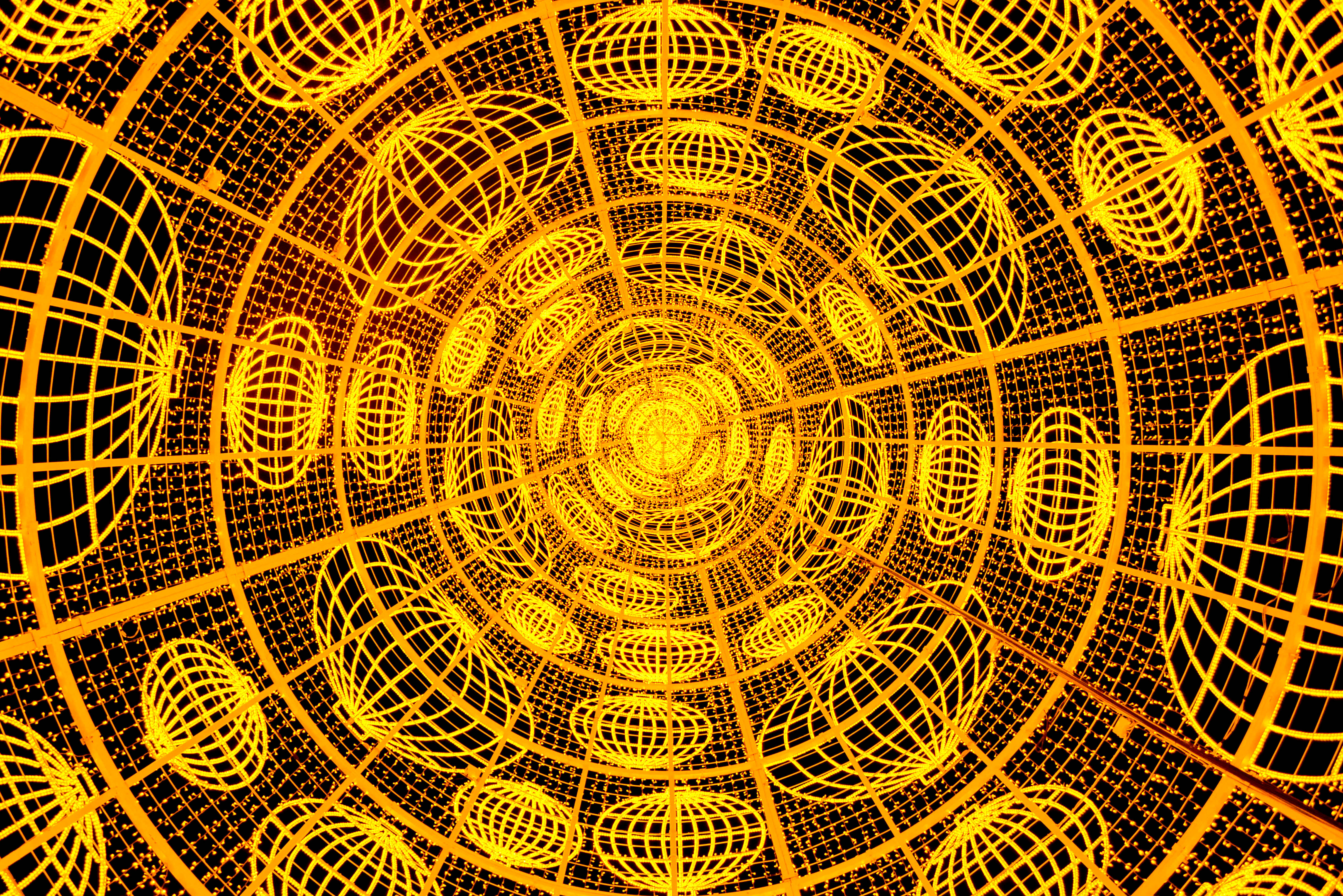 Interior of the Christmas Tree, Puerta del Sol, Madrid.